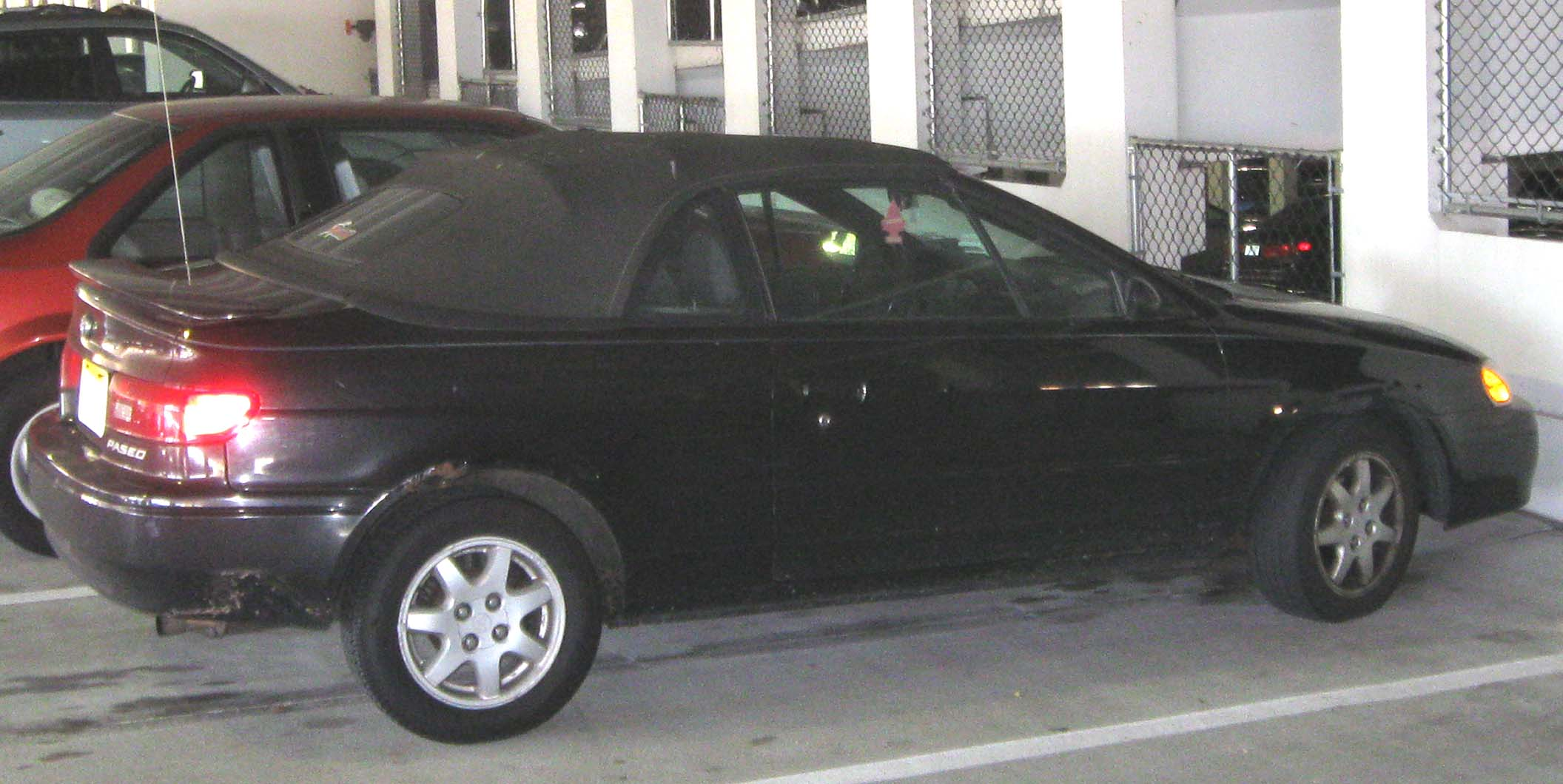 1995-1997 Toyota Paseo photographed in College Park, Maryland, USA.